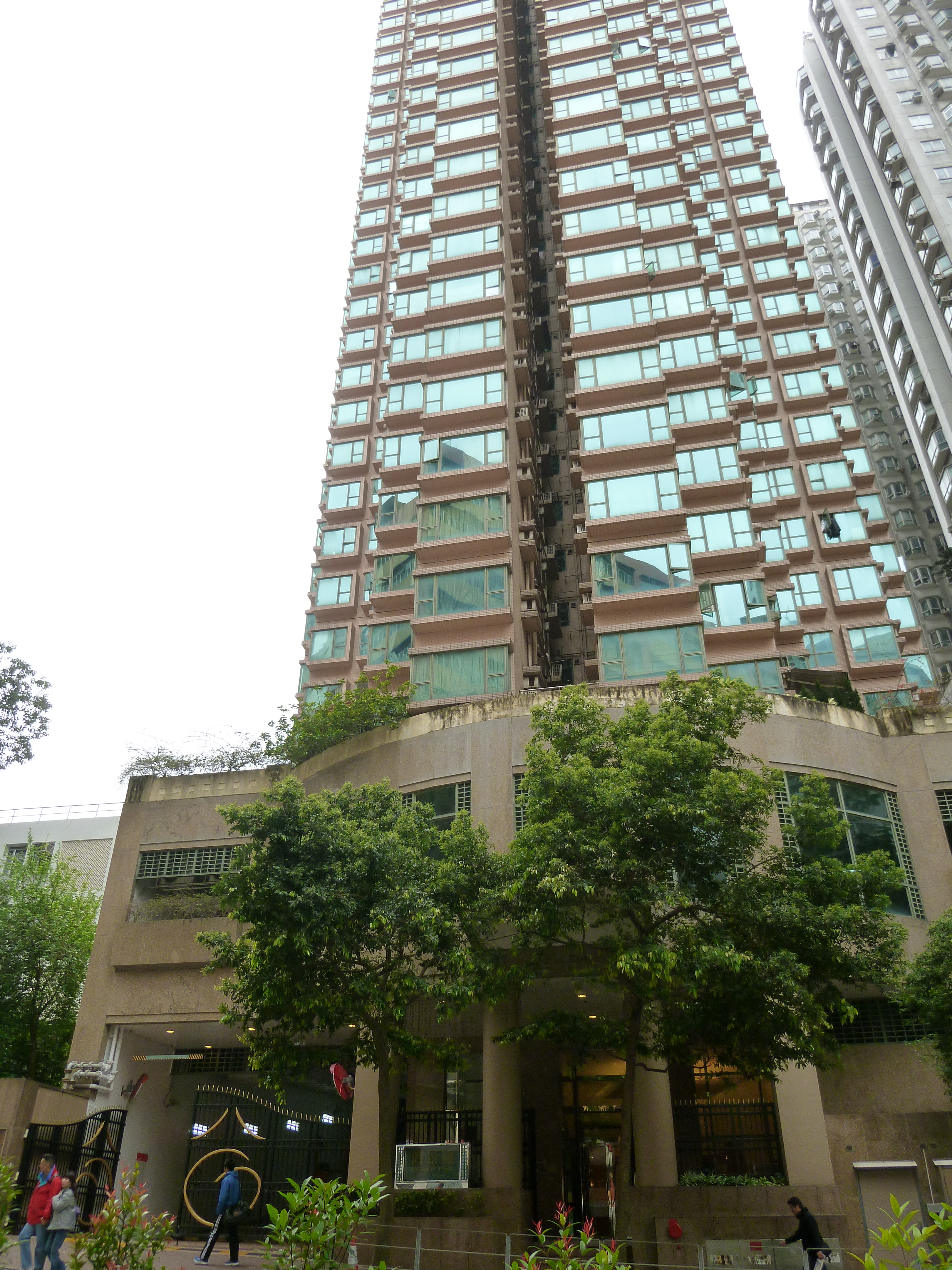 Bayview Park (3 Hong Man Street, Chai Wan, Hong Kong)